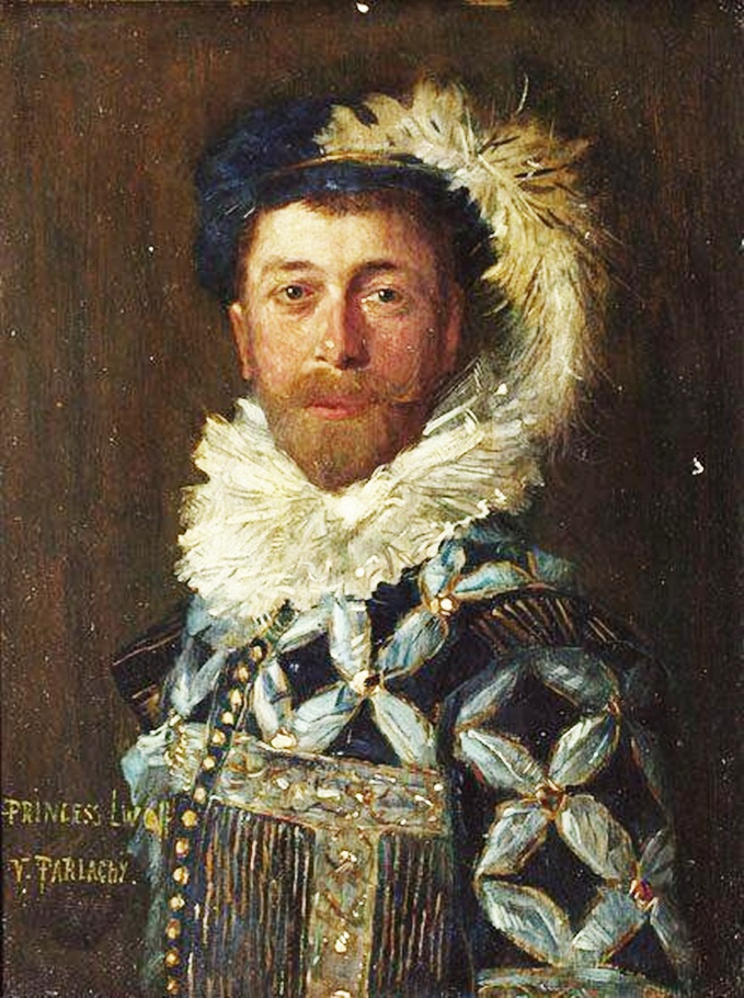 Portrait of Prince Ernst Günter of Schleswig-Holstein-Sonderburg-Augustenburg, painted by Vilma Lwoff-Parlaghy.